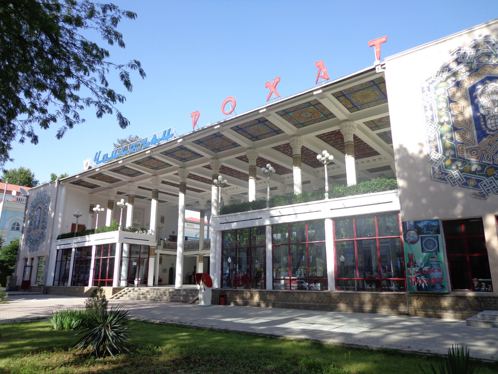 Chaykhona Rohat, Dushanbe, Tajikistan